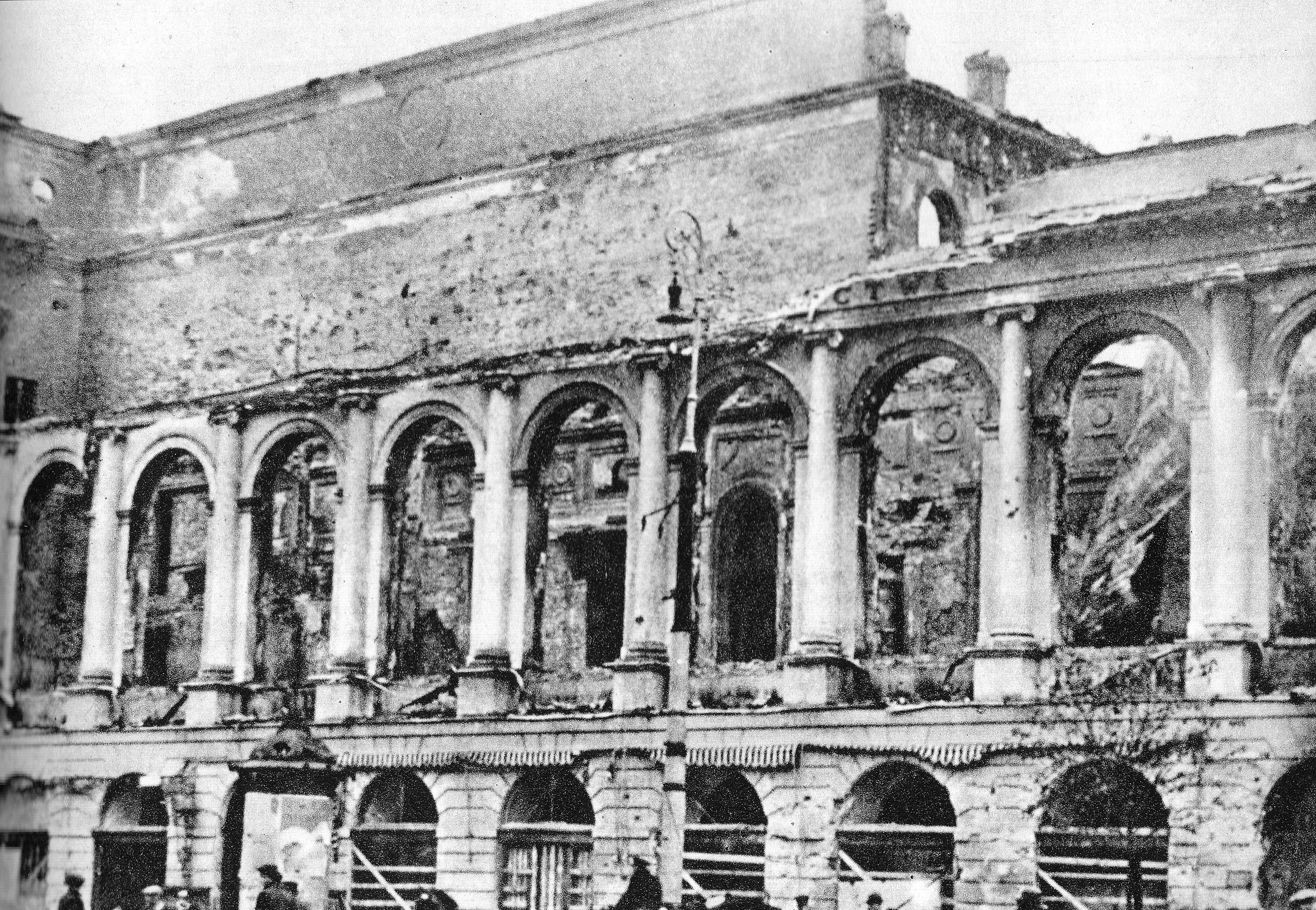 Museum of Industry and Agriculture in Warsaw